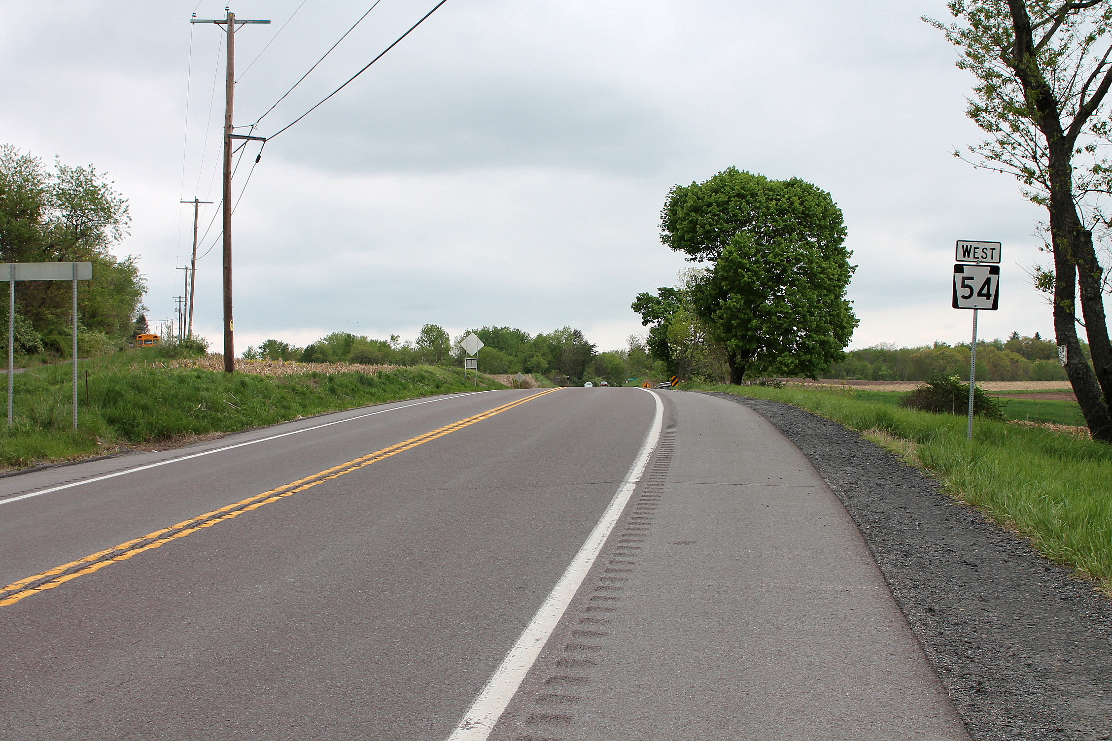 Pennsylvania Route 54 a few miles southeast of Elysburg